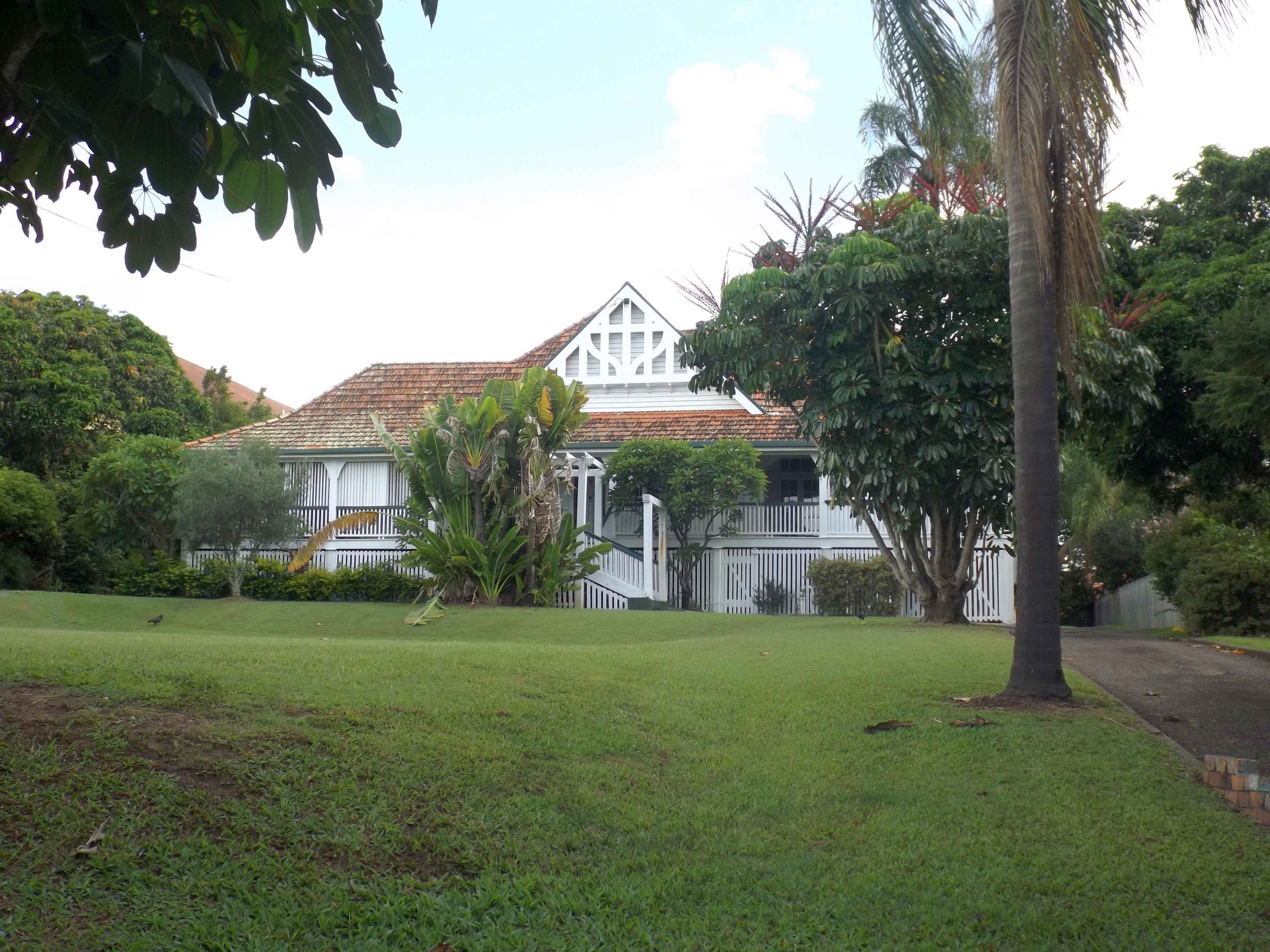 Photo of Kitawah residence and front lawn at East Brisbane, Brisbane, Queensland, Australia.